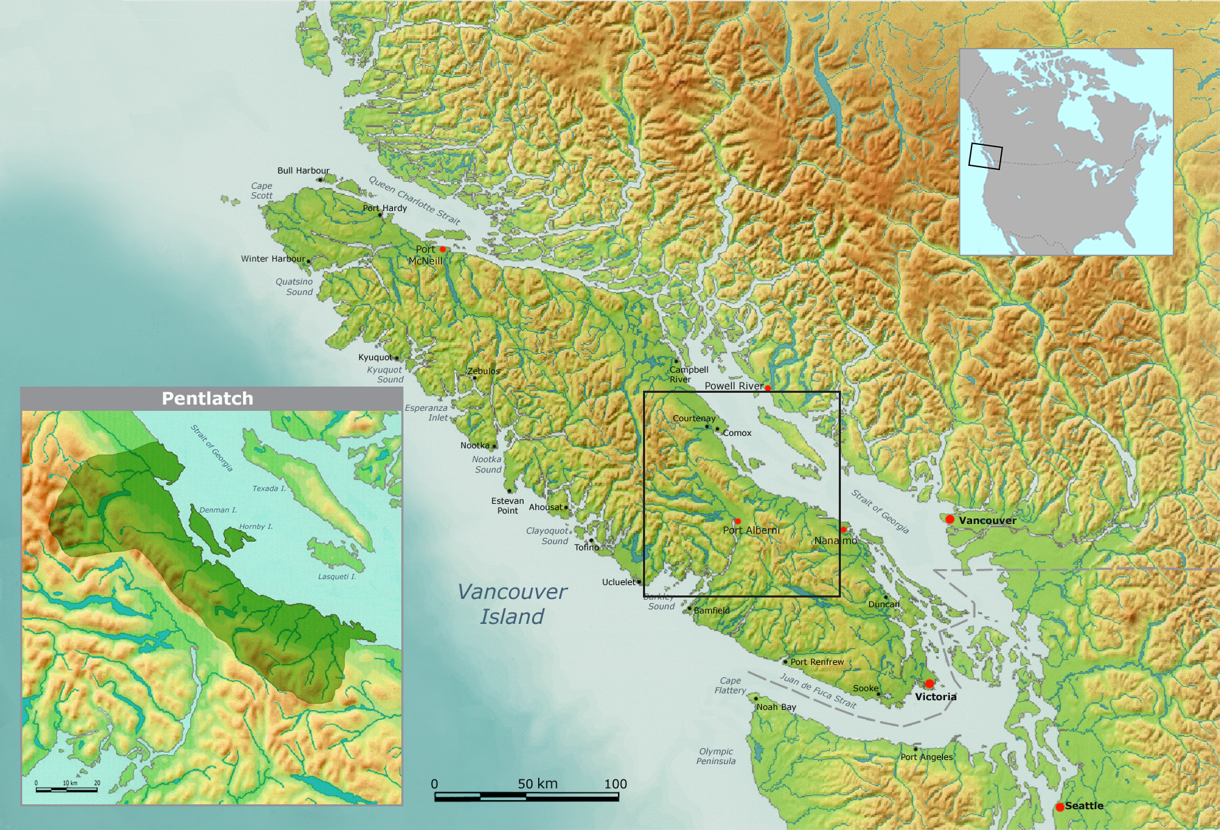 Map of Pentlatch tribal territory.